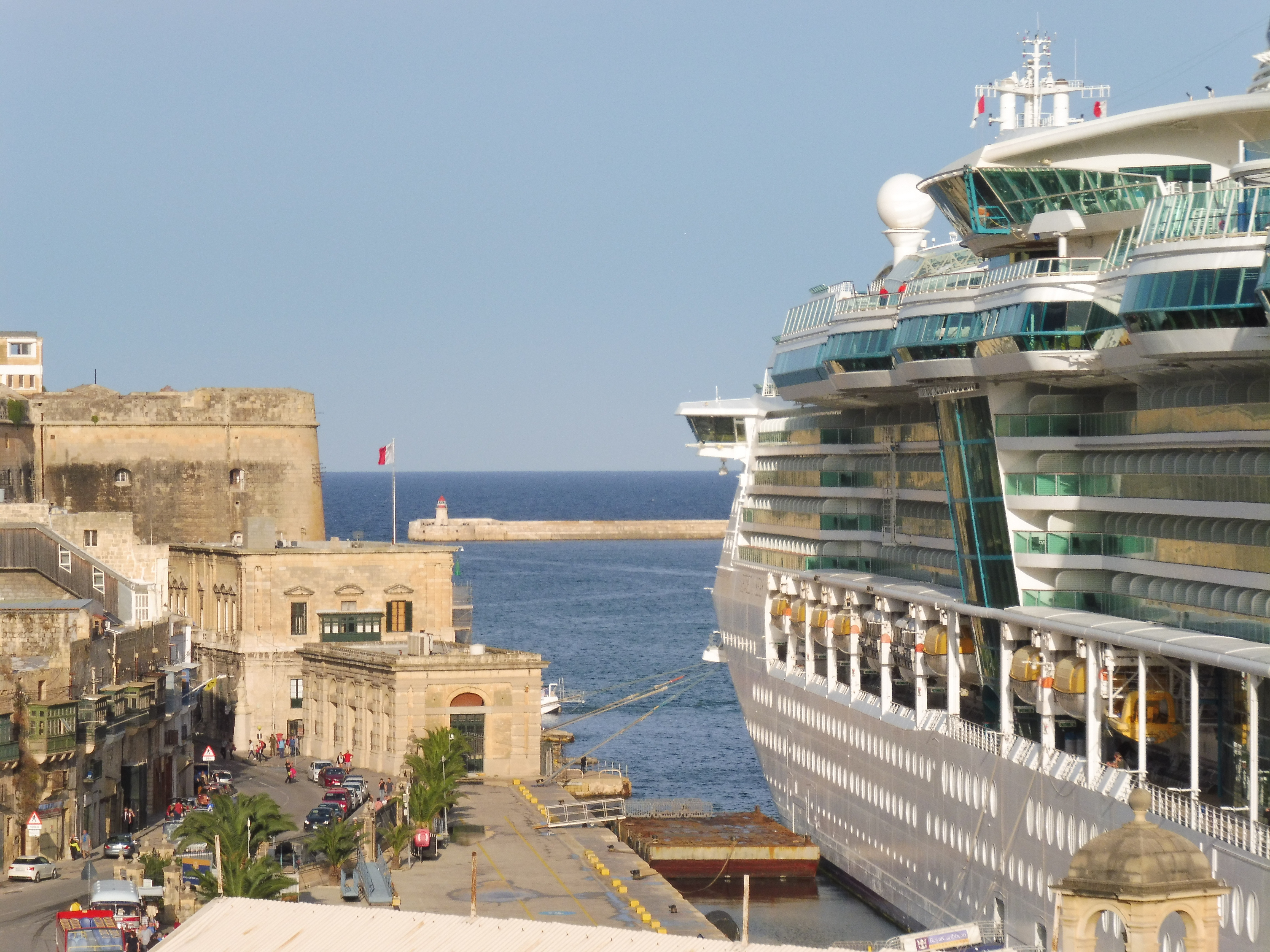 Cruise ship "Jewel of the Seas" at Valletta Waterfront on Malta (2019)